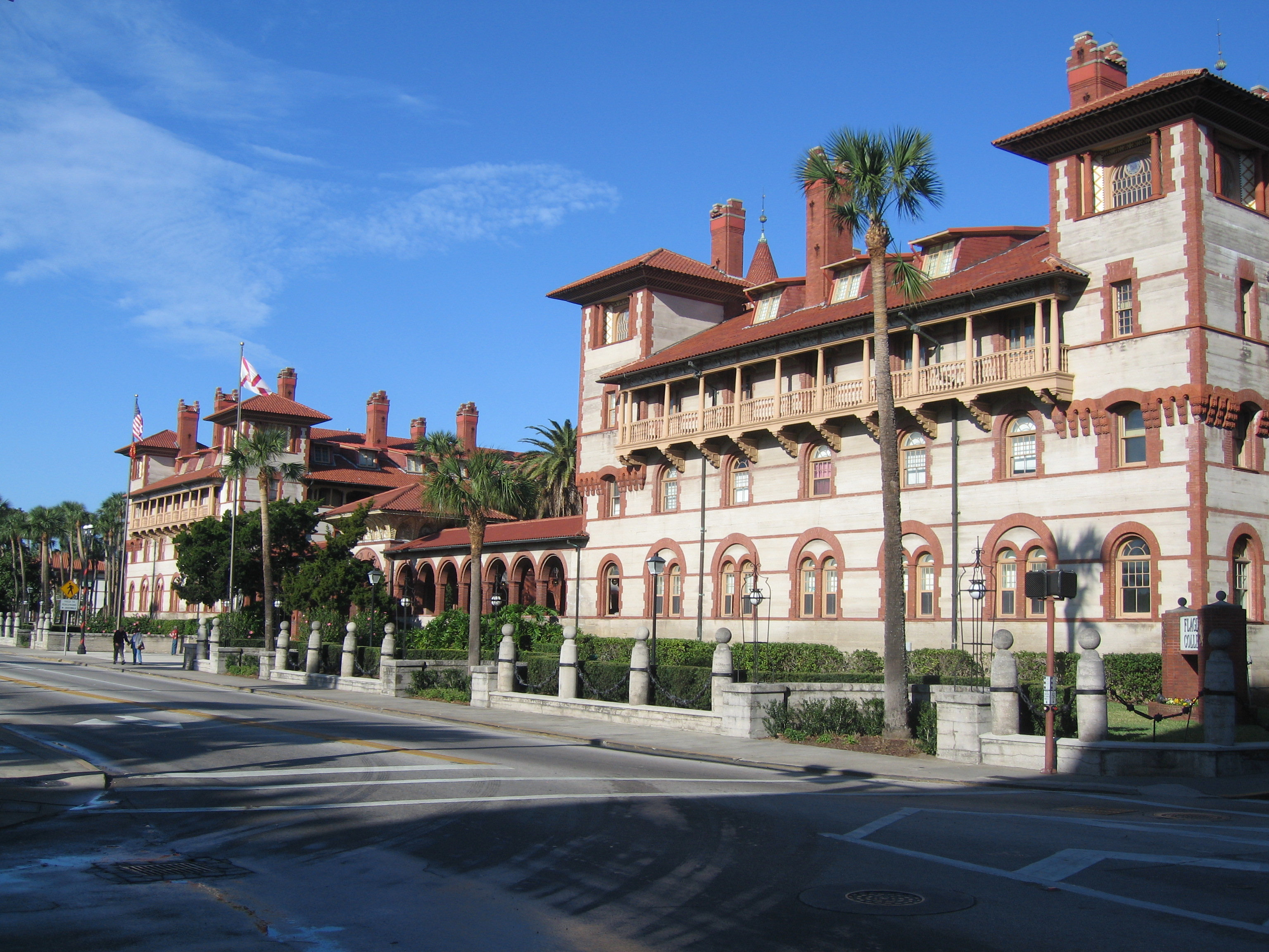 Flagler College (former Ponce de León Hotel), 74 King Street, St. Augustine, Florida.